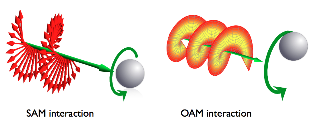 light beam interacting with small particle for two different cases , which beam posses spin and orbital angular momentum.